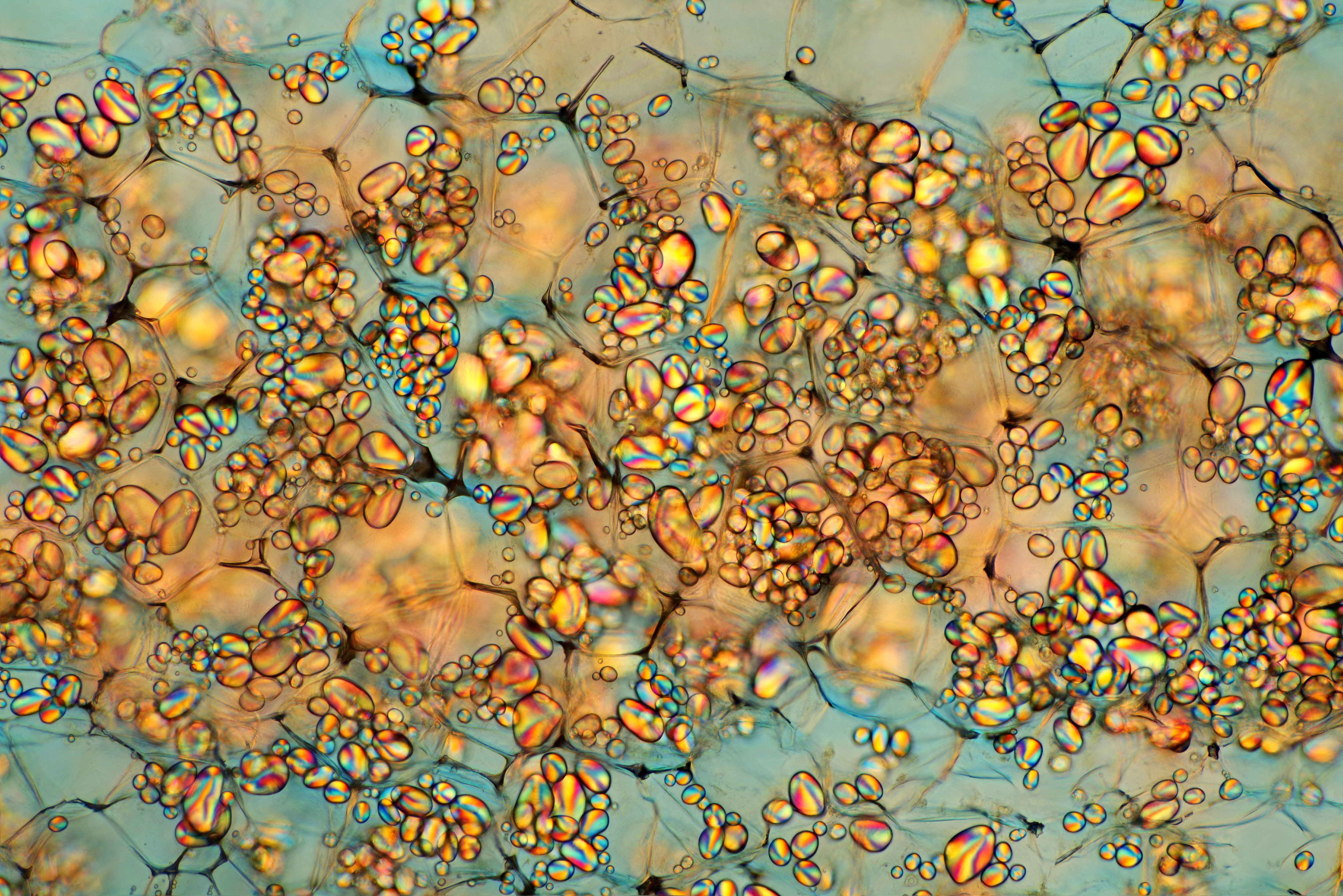 The image presents numerous starch grains in rwa potato cells. Magnification is 100X. Technique of the illumination: polarized light.